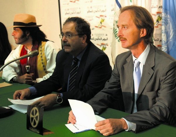 From left to right: Michel I, Emperor of Nowheristan; Dr. Tarek Mitri, Lebanese Minister of Culture; Geir Pederson, Personal Representative of the United Nations Secretary General to Lebanon; at the ceremony Proclamation of the Great Empire of Nowheristan. UNESCO Palace, Beirut, 21 September, 2005.